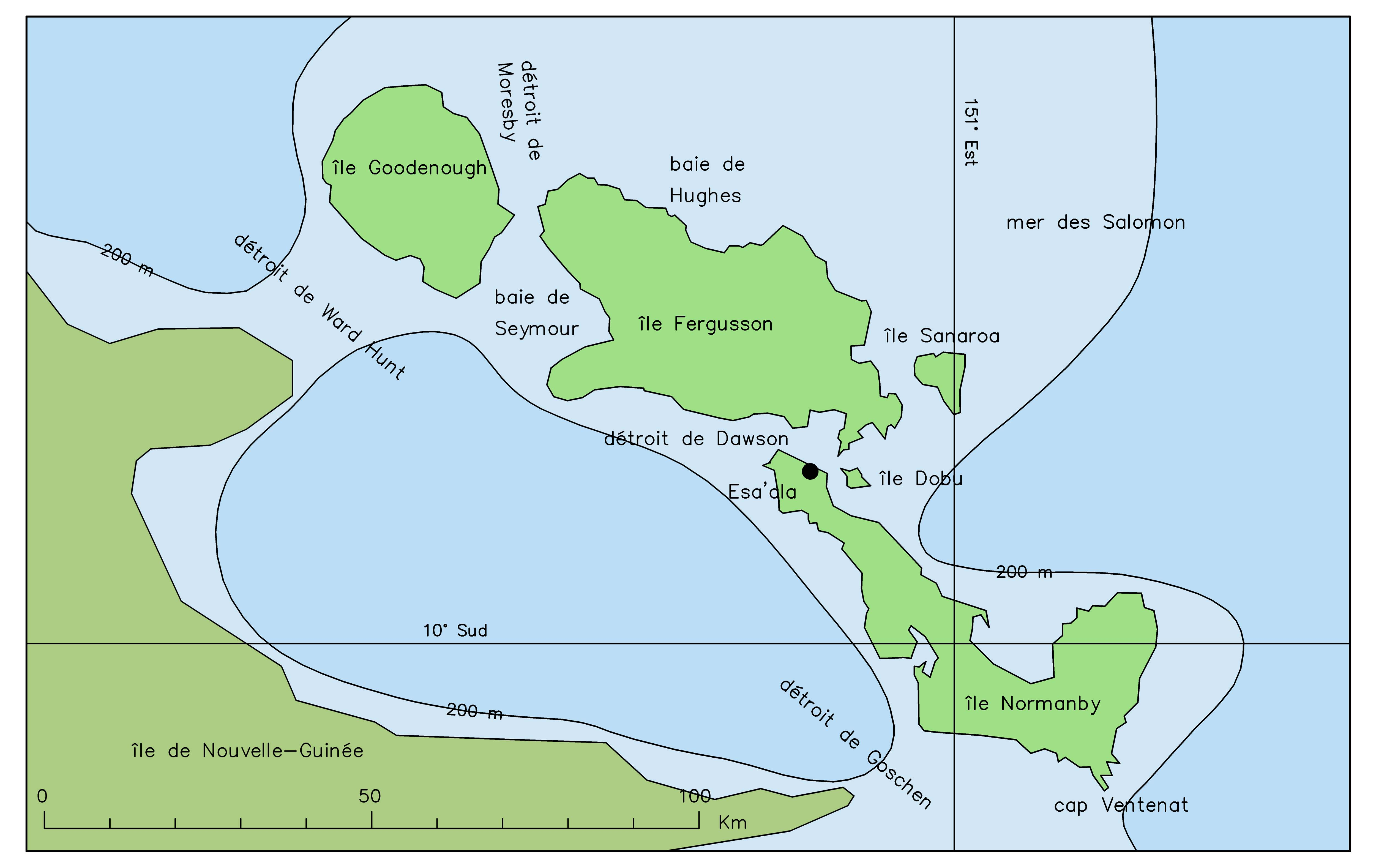 Map of d'Entrecasteaux Islands, Papua New Guinea